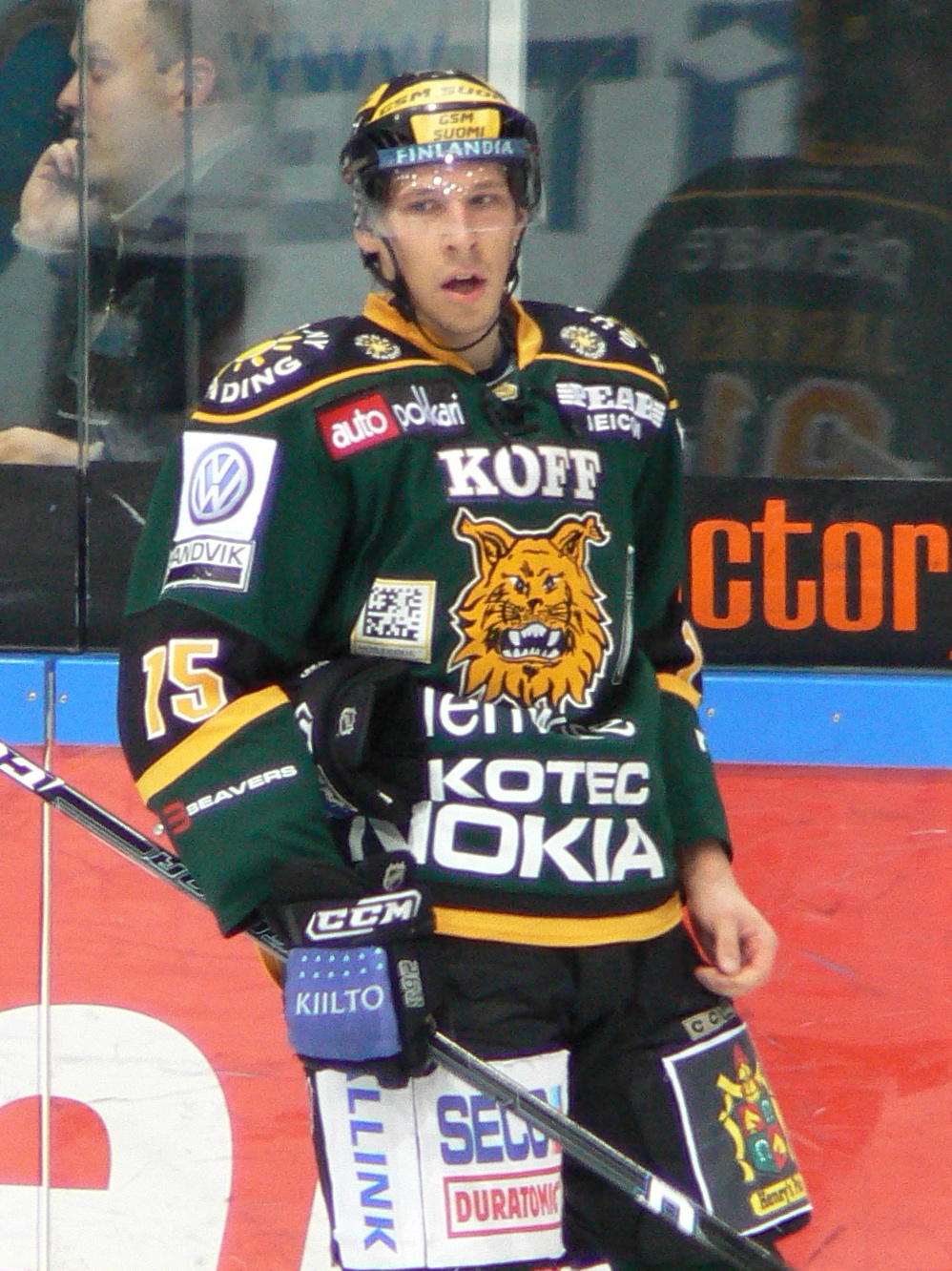 Finnish ice hockey forward Masi Marjamäki playing for Ilves Tampere in September, 2008.